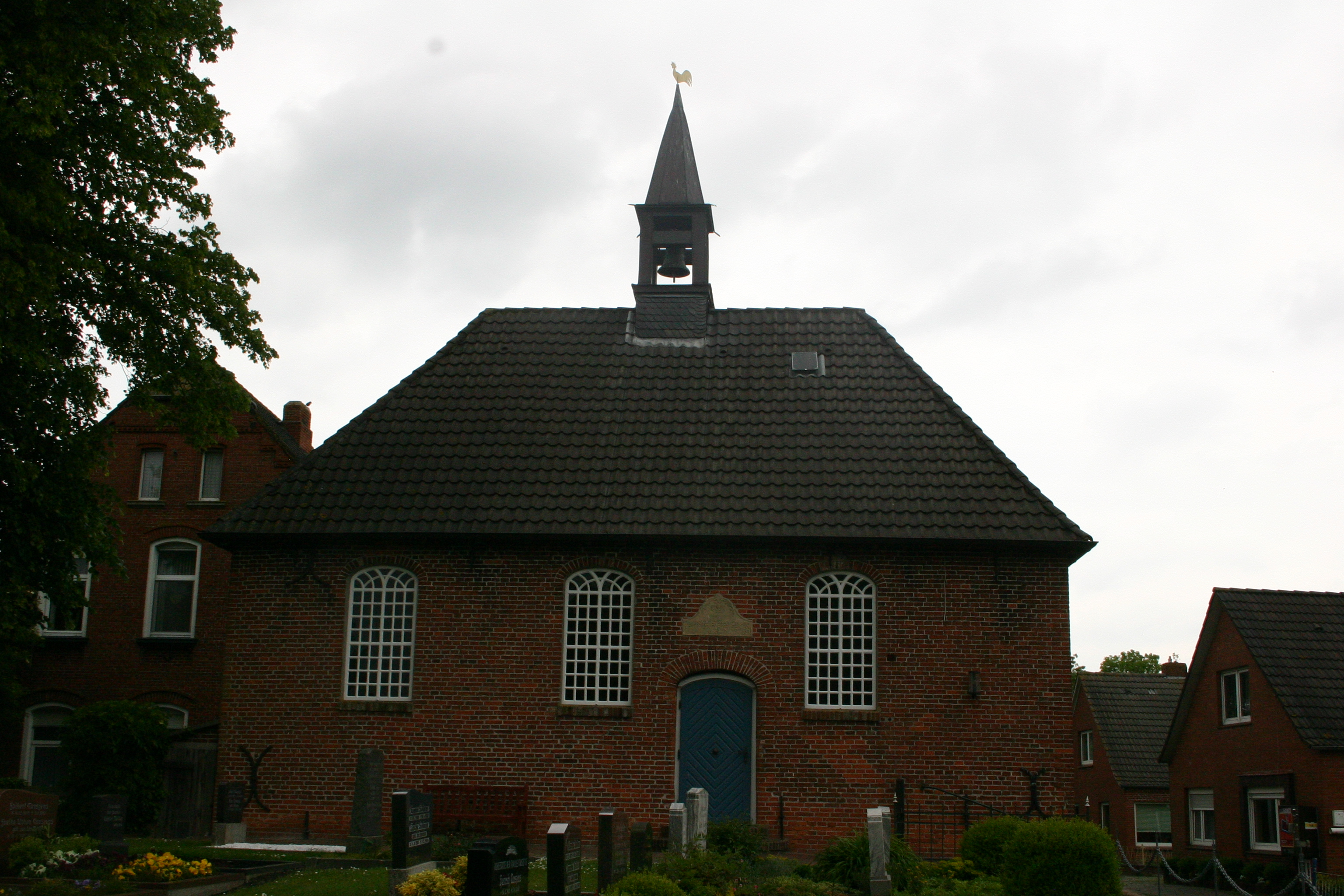 Hist. church in Canhusen, district of Aurich, East Frisia, Germany